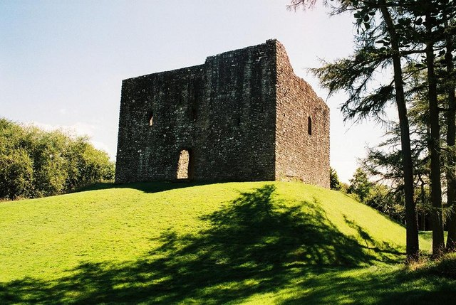 Lydford: the castle A relatively small ruin next door to the church, this roofless castle is set on a pleasant grassy mound.